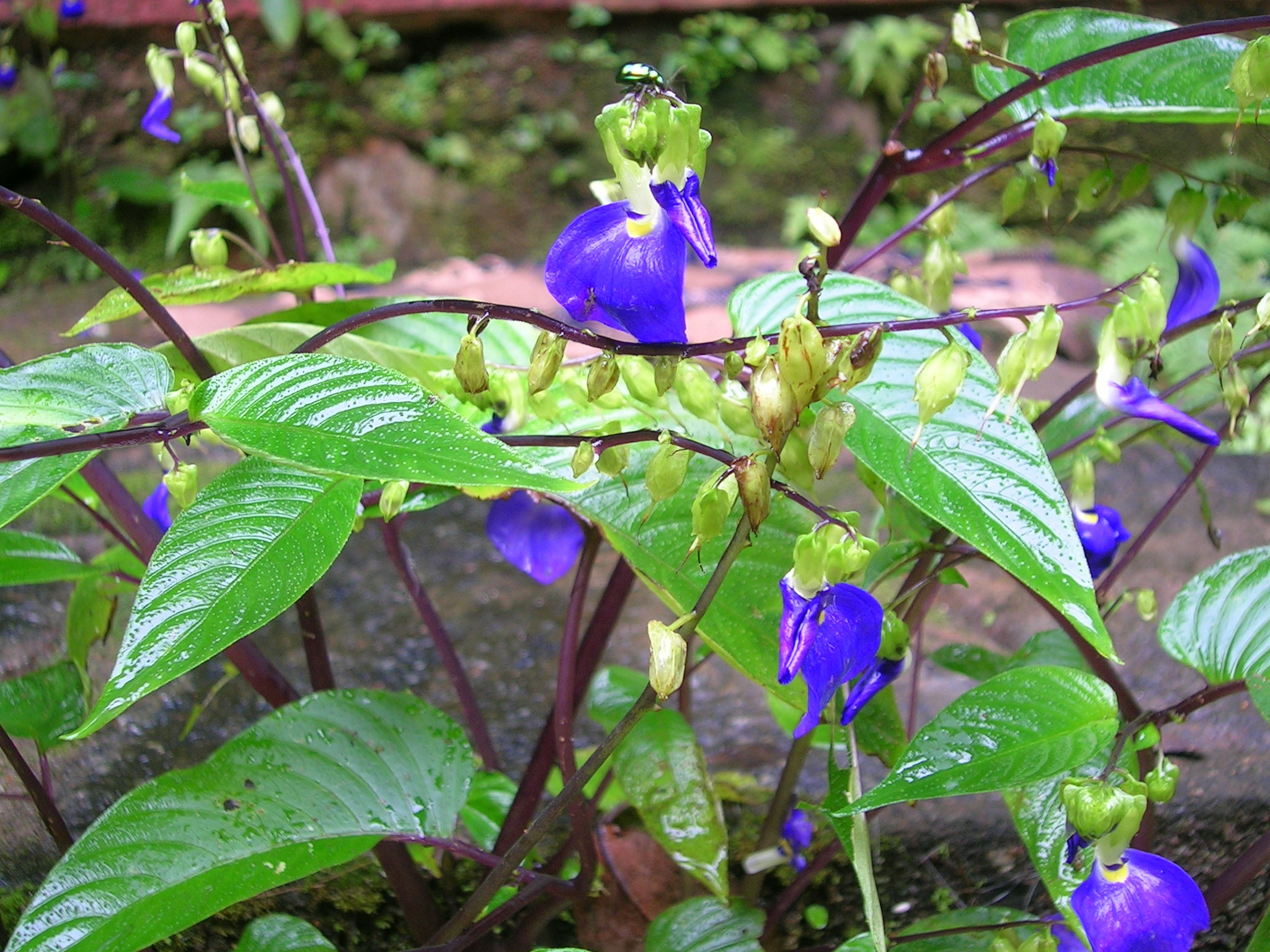 Klugia sp. (=Rhynchoglossum cf. notonianum) flowers, North Wayanad, Kerala